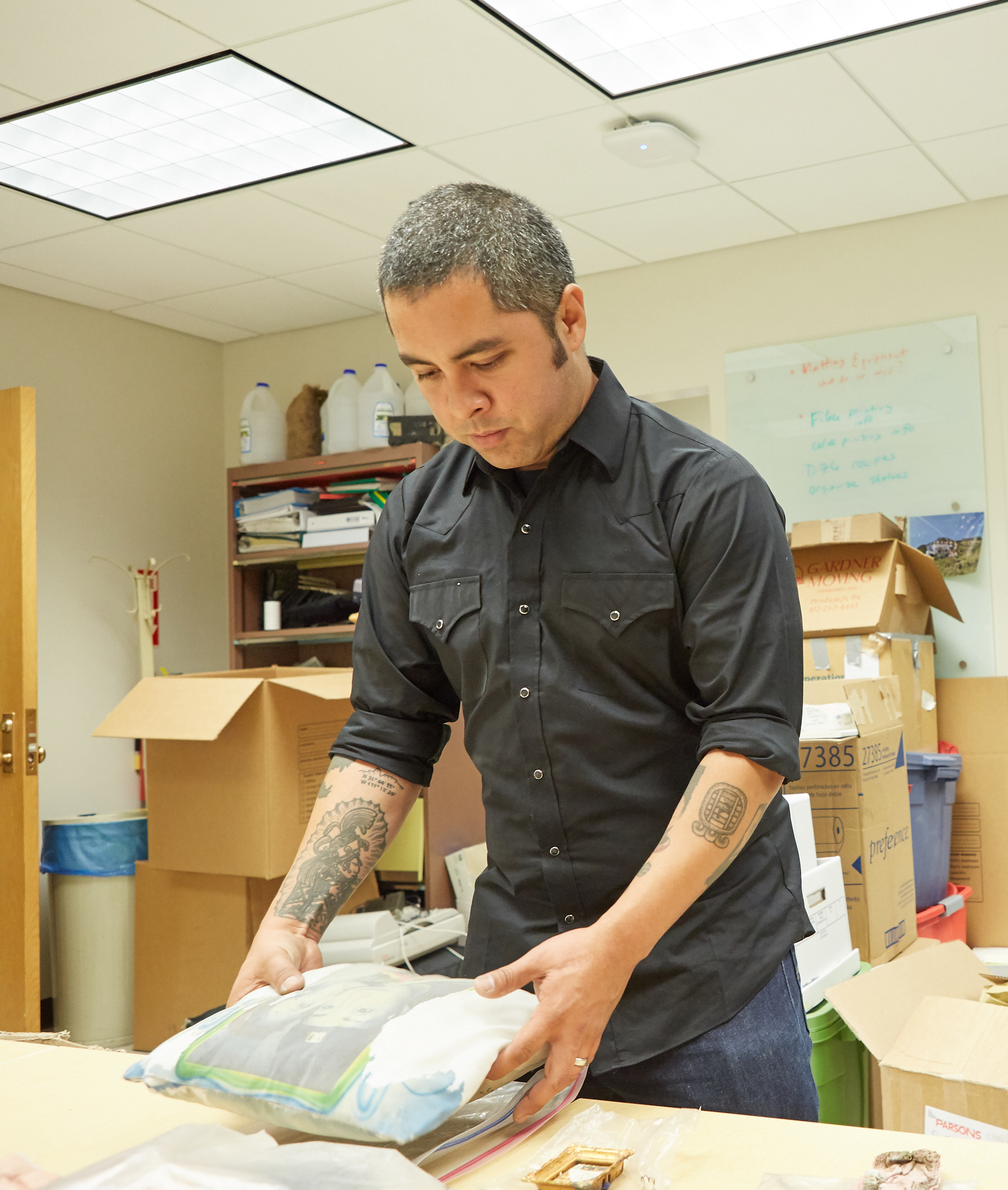 Jason de Leon